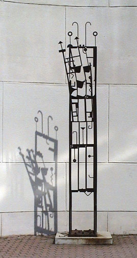 Statue – István Drozsnyik: The divorce of the daytimes and nights onto cricket chirping. Miskolc, Hungary